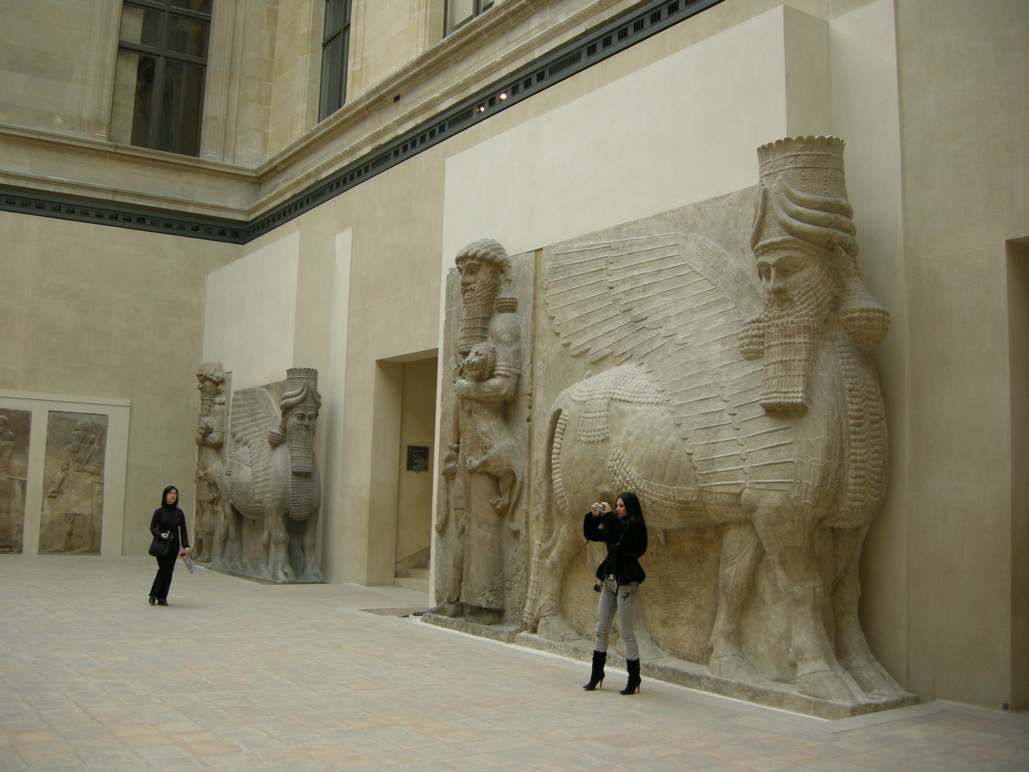 Eastern Antiquities in the Louvre - Room 4, 04.JPG Hero mastering a lion-AO19861 Winged bull with human head-AO 19859 Hero mastering a lion-AO19862 Reproduction of a winged bull with human head-AO 30043